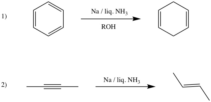 Reduction reactions using sodium in liquid ammonia